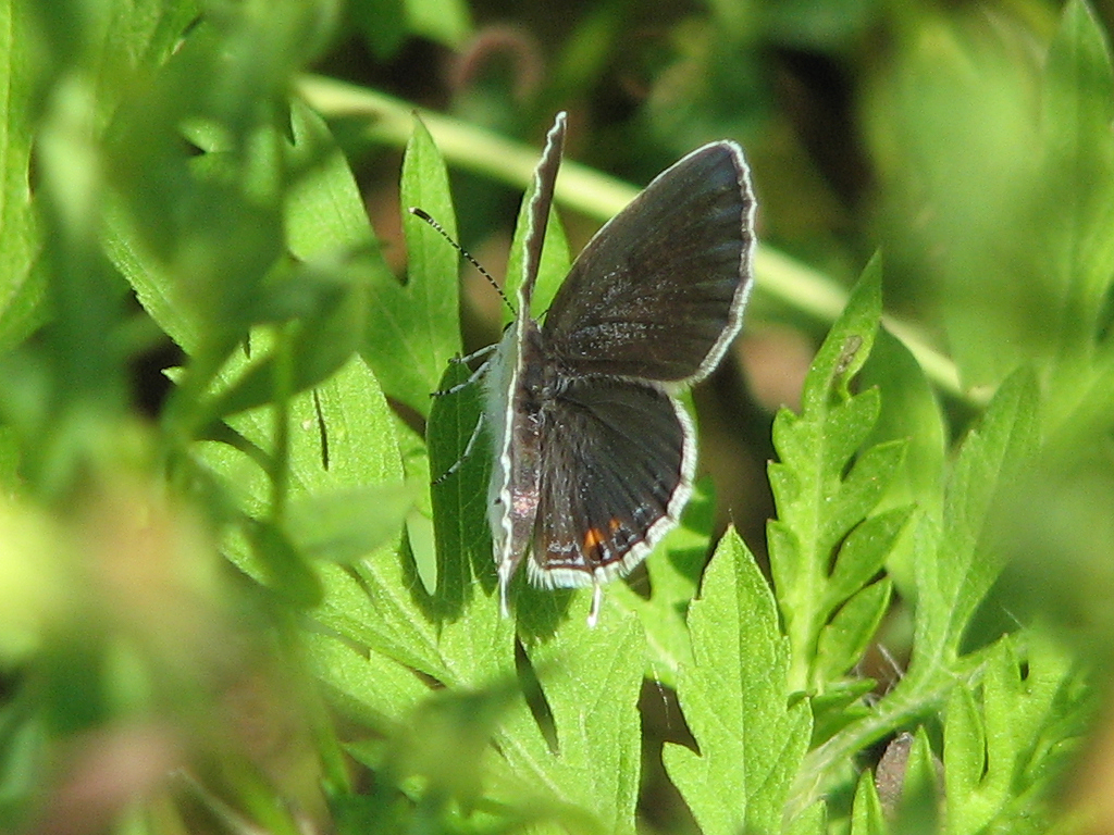 Eastern tailed-blue (Cupido comyntas) taken along Rideau River in Ottawa, Canada